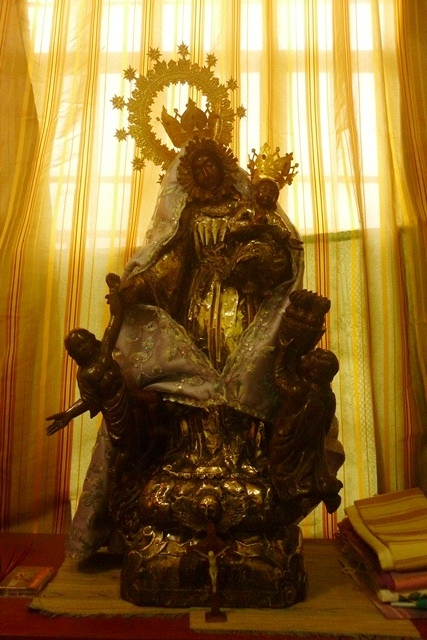 Original Statue. Photo courtesy of John P. Arcilla